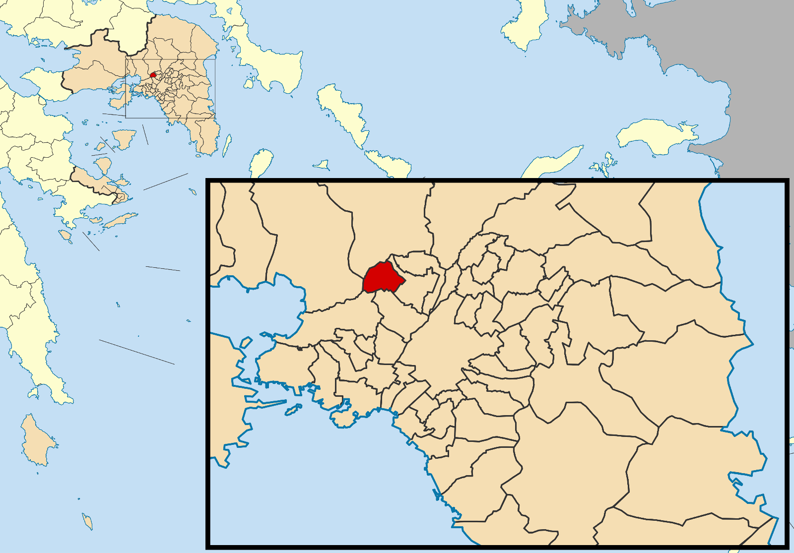 Locator map for Petroupoli municipality in Greek region Attica (2011)